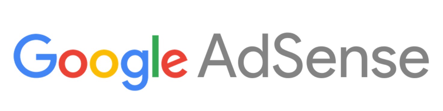 Google Adsense Logo